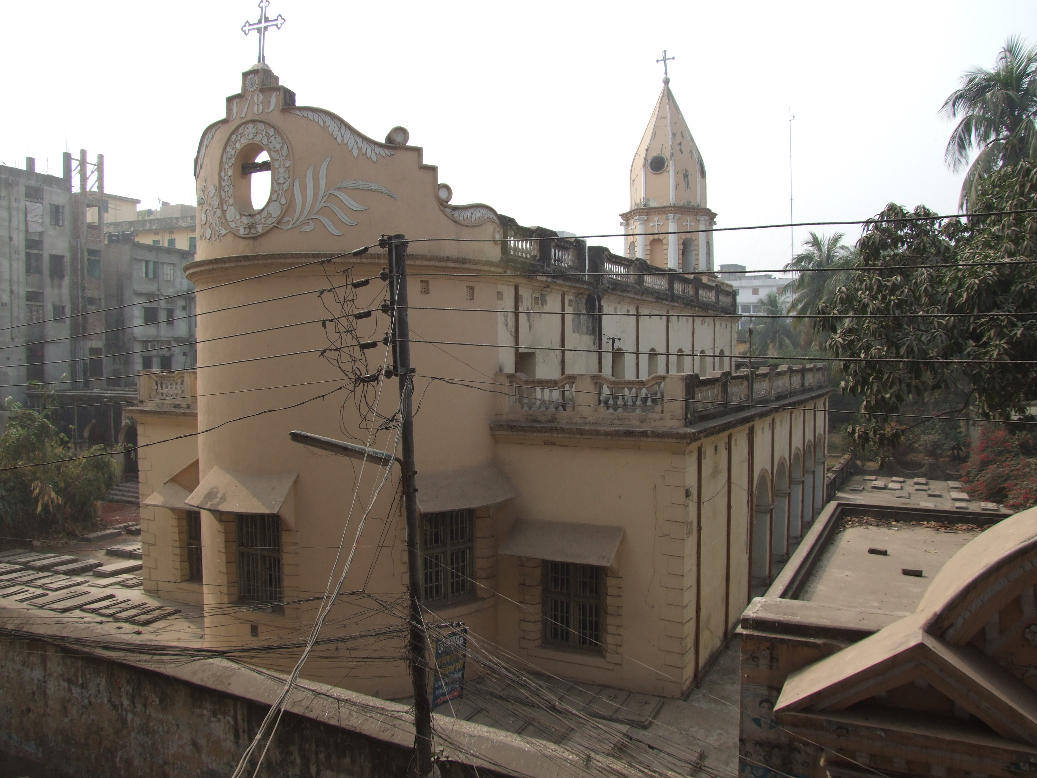 Two century old Armenian Church in Old Dhaka, Bangladesh. My students "Arafat & Hossien" helped me to take this picture.